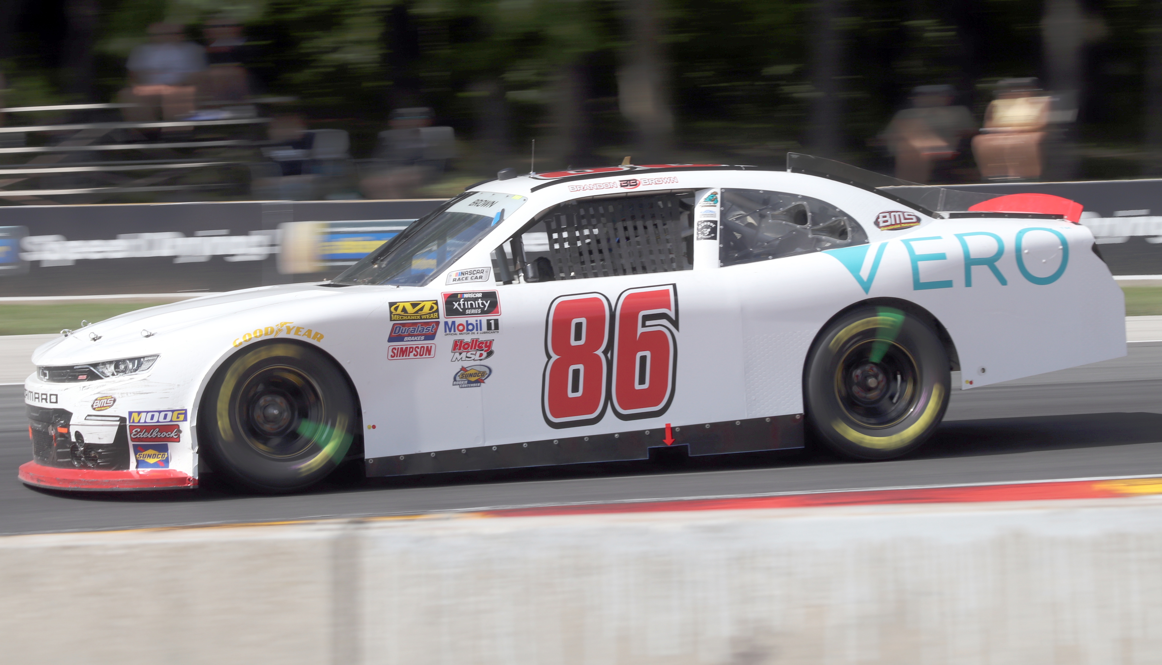 The #86 Chevrolet Camaro of Brandon Brown at the NASCAR CTECH 180.